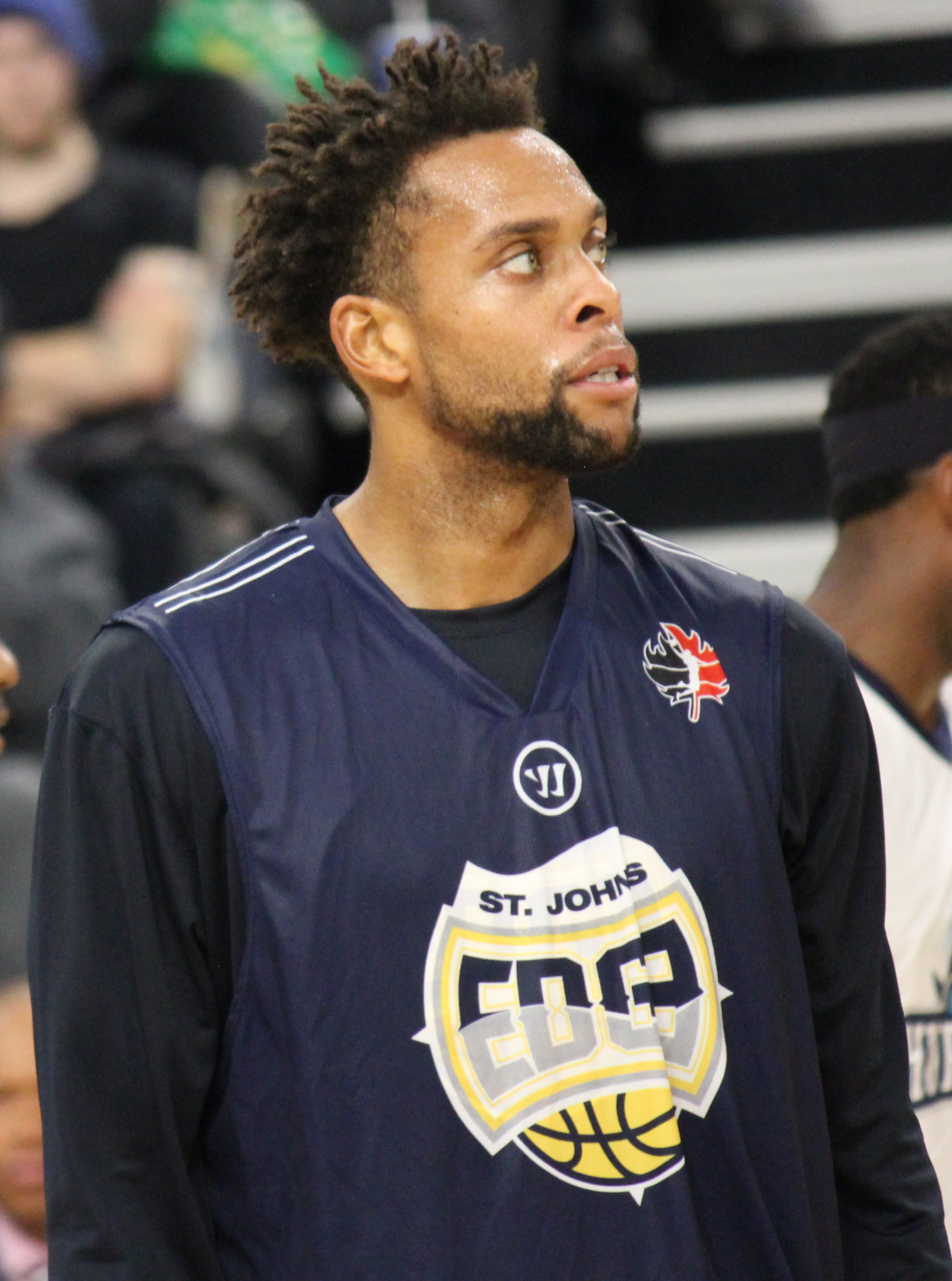 halifax